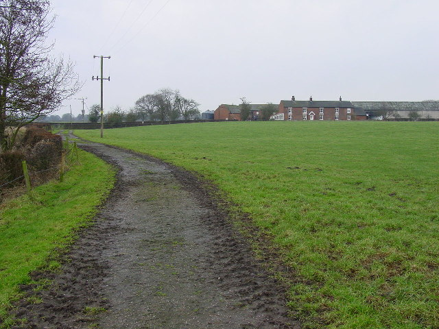 Lower Medhurst Green Farm. On the Dane Valley Way looking west towards Lower Medhurst Green Farm.